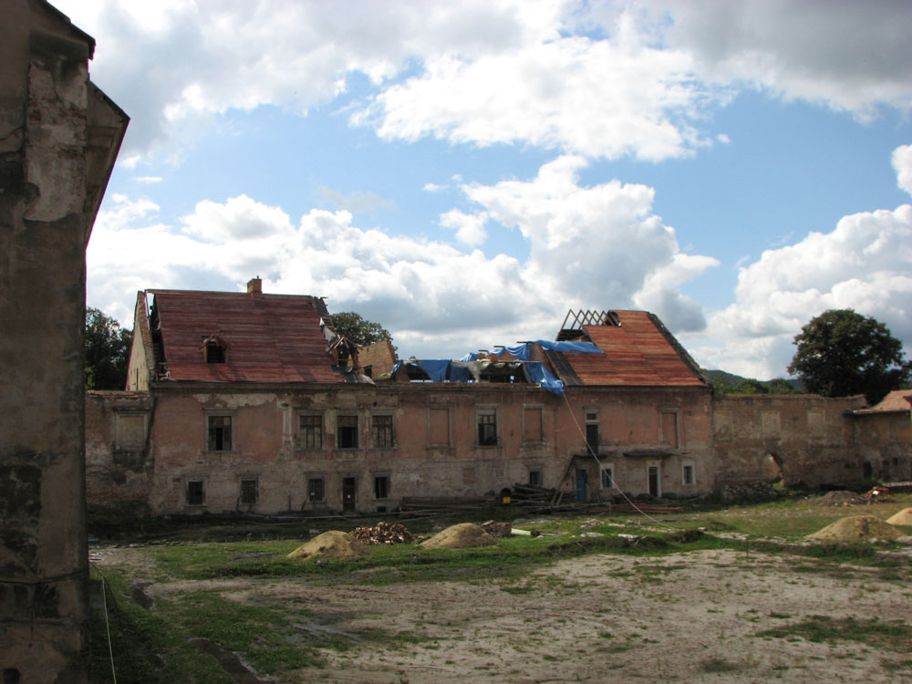 Zhovkva castle inner yard and palace reconstruction in September, 2009